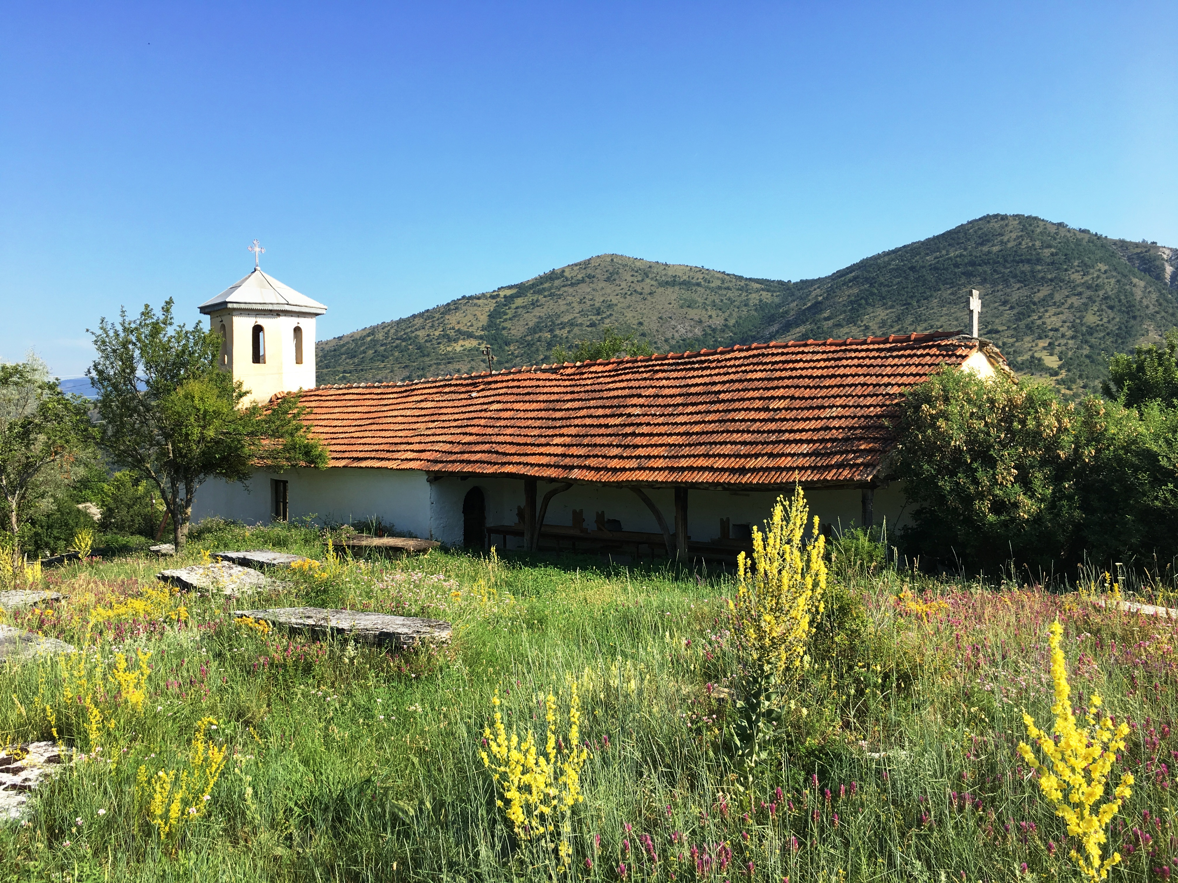 Church of the Ascension of Christ in the village of Crešnevo